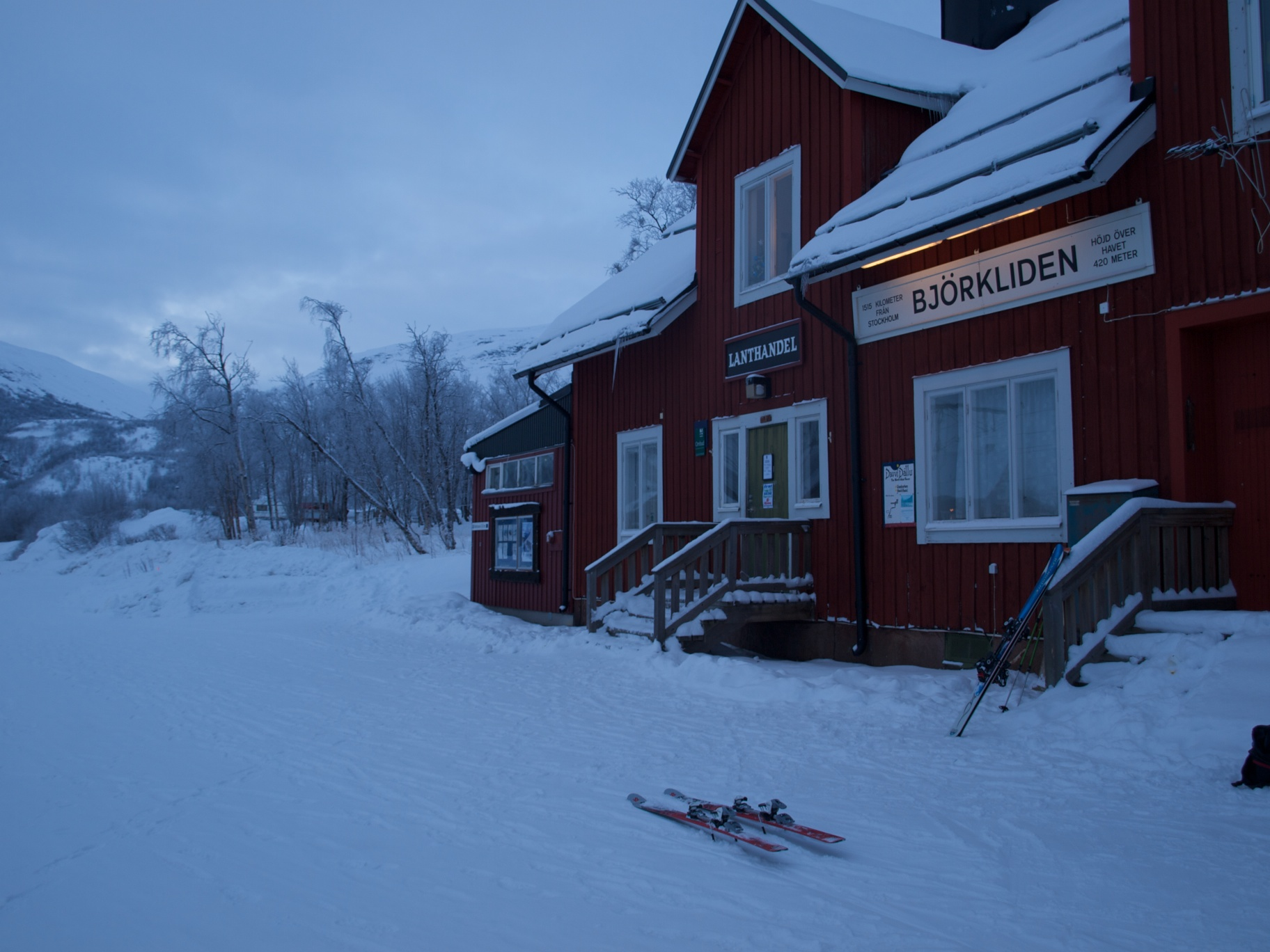 Railway station Björkliden, Sweden.